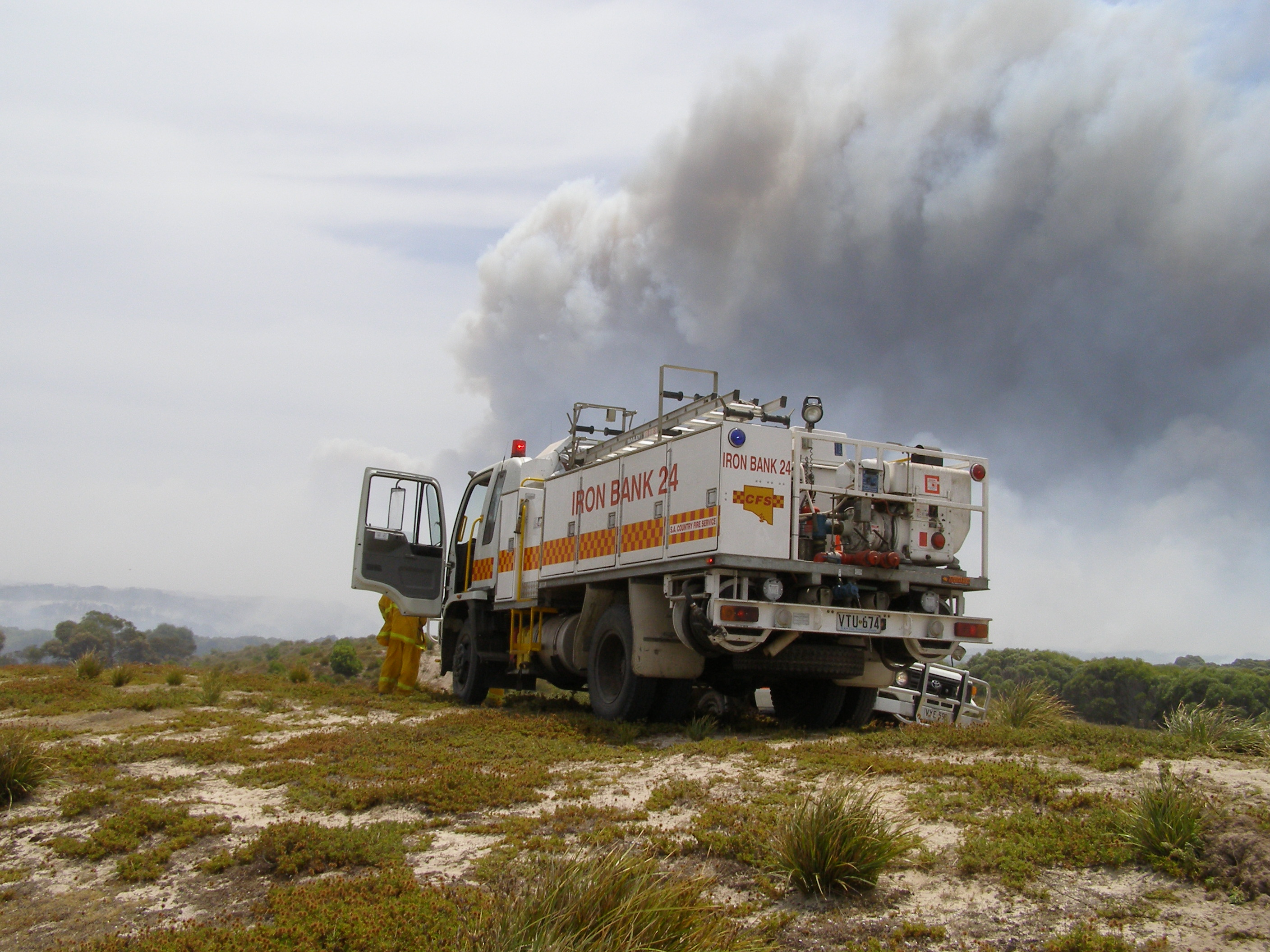 author, user emmanuellives waiting